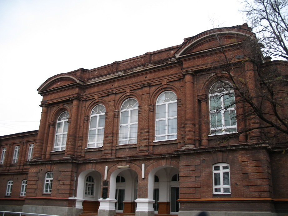 First Gymnasium founded 1876